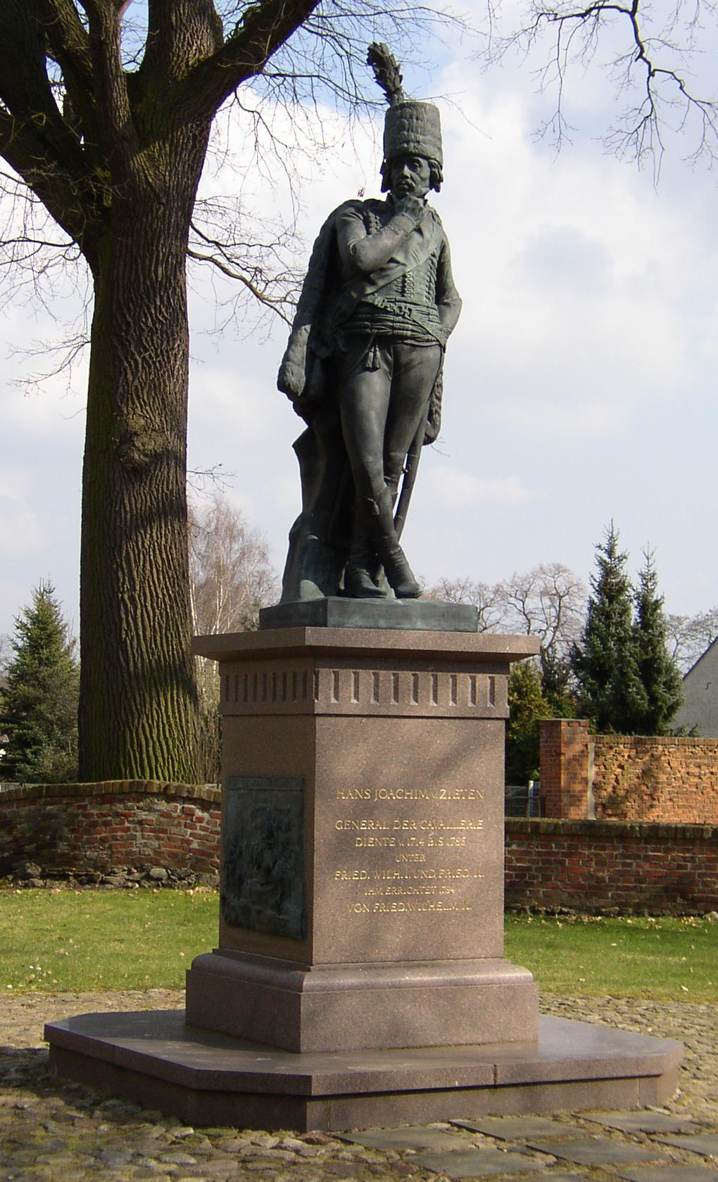 Memorial for Hans Joachim von Zieten in Fehrbellin-Wustrau in Brandenburg, Germany